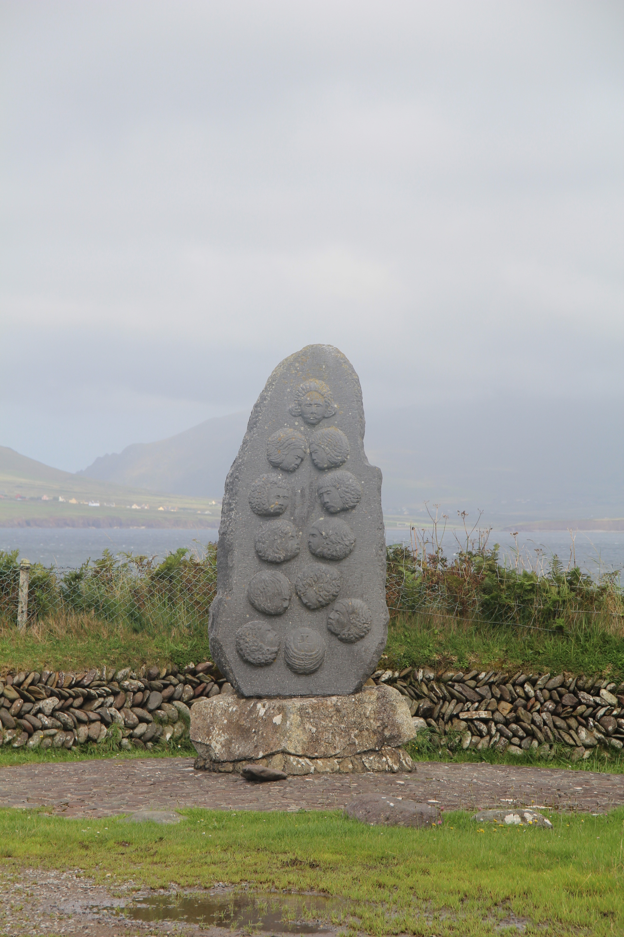 Ard na Caithne, Ciarraí